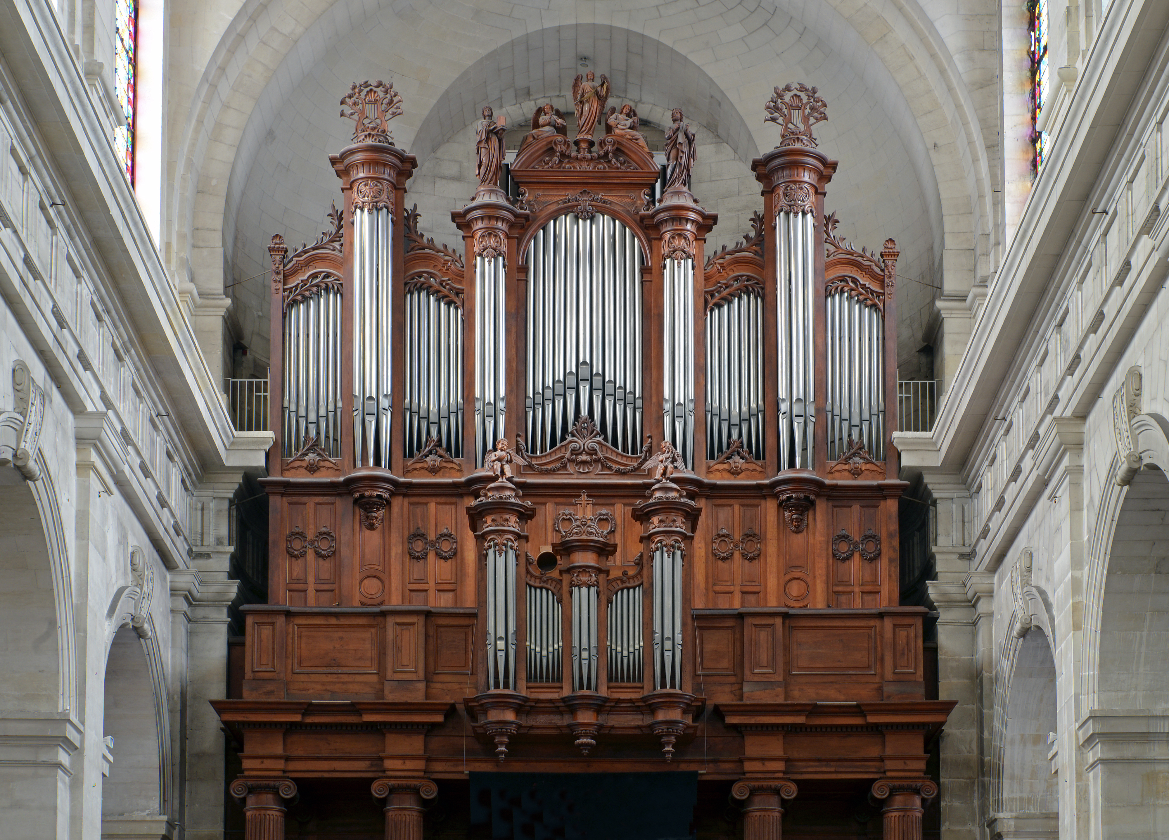 Pipe organ of La Rochelle Cathedral - Charente-Maritime, France.